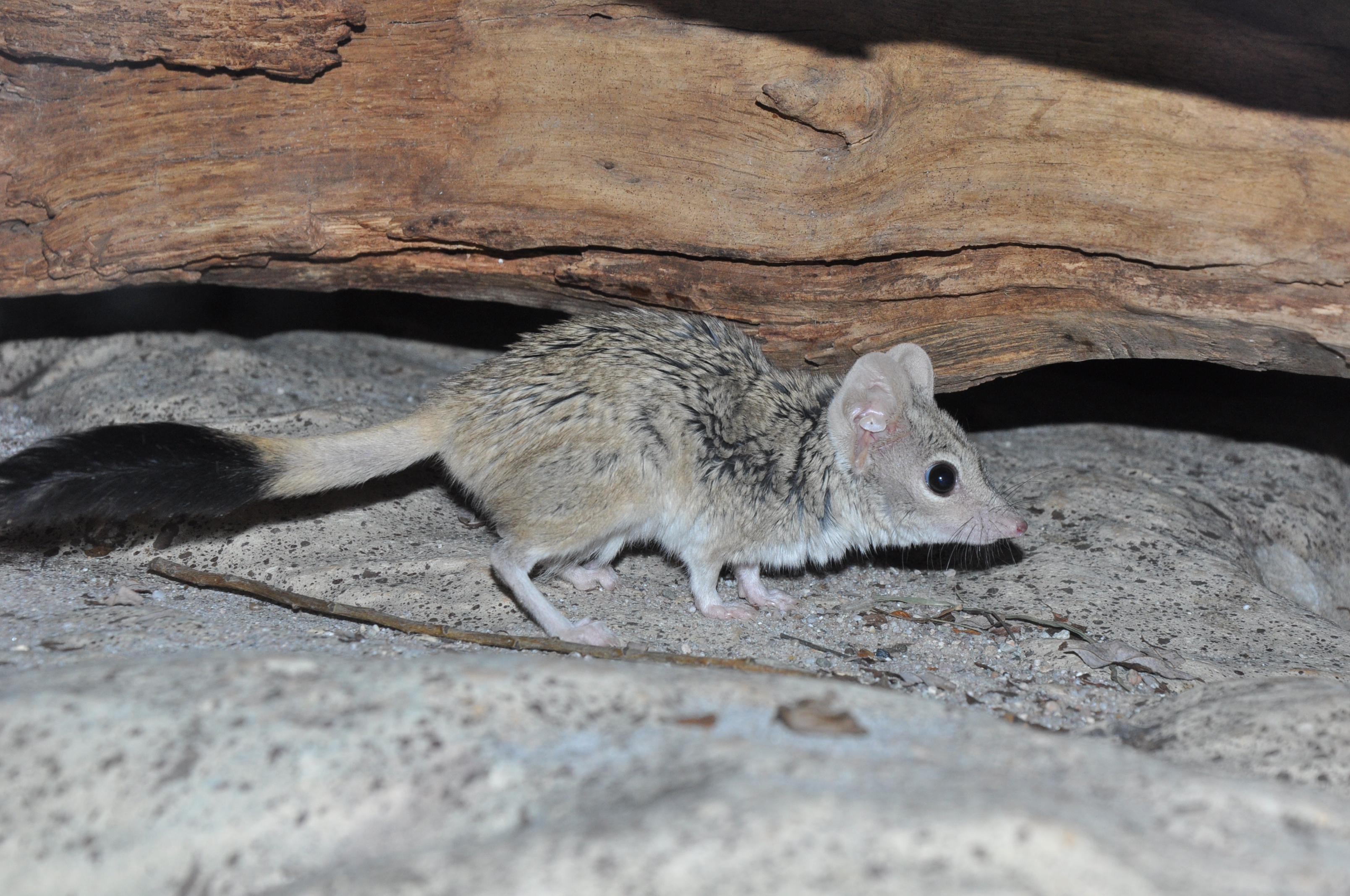 Dasycercus byrnei